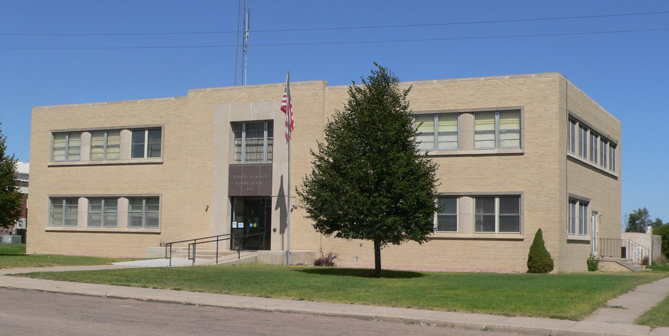 Hayes County courthouse in Hayes Center, Nebraska; seen from the southeast. The date carved over the door is 1954.